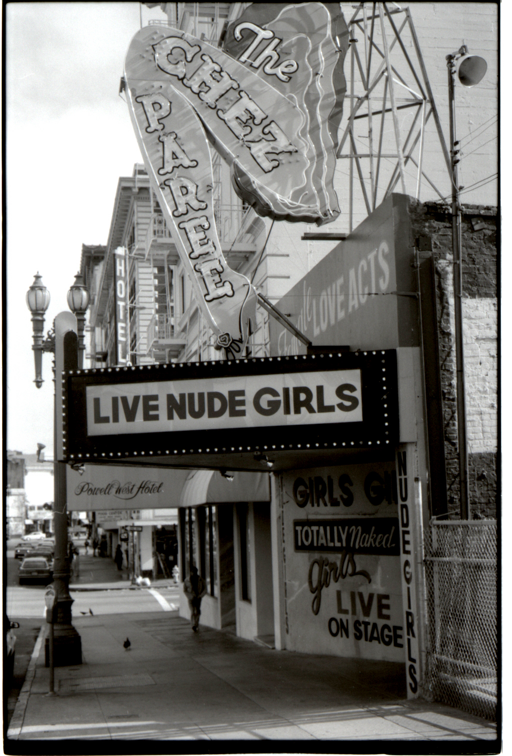 San Francisco's Tenderloin, 1991 "The Chez Paree" with marquee reading "LIVE NUDE GIRLS"